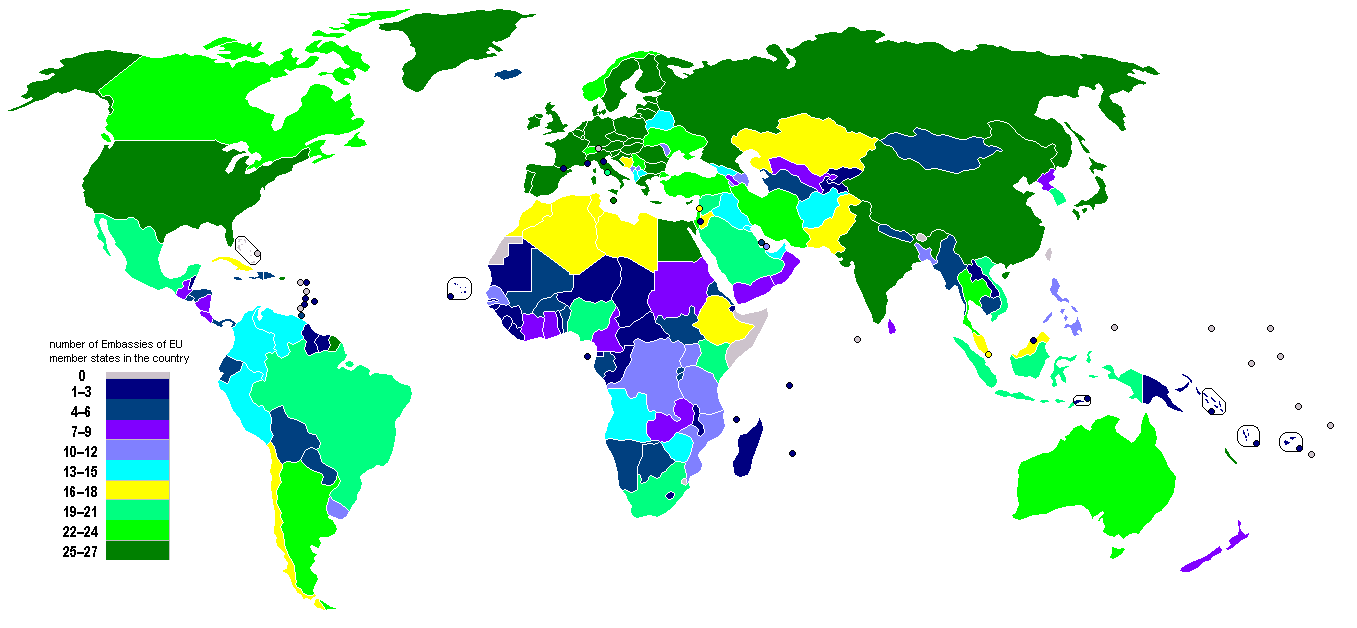 Embassies of EU member states